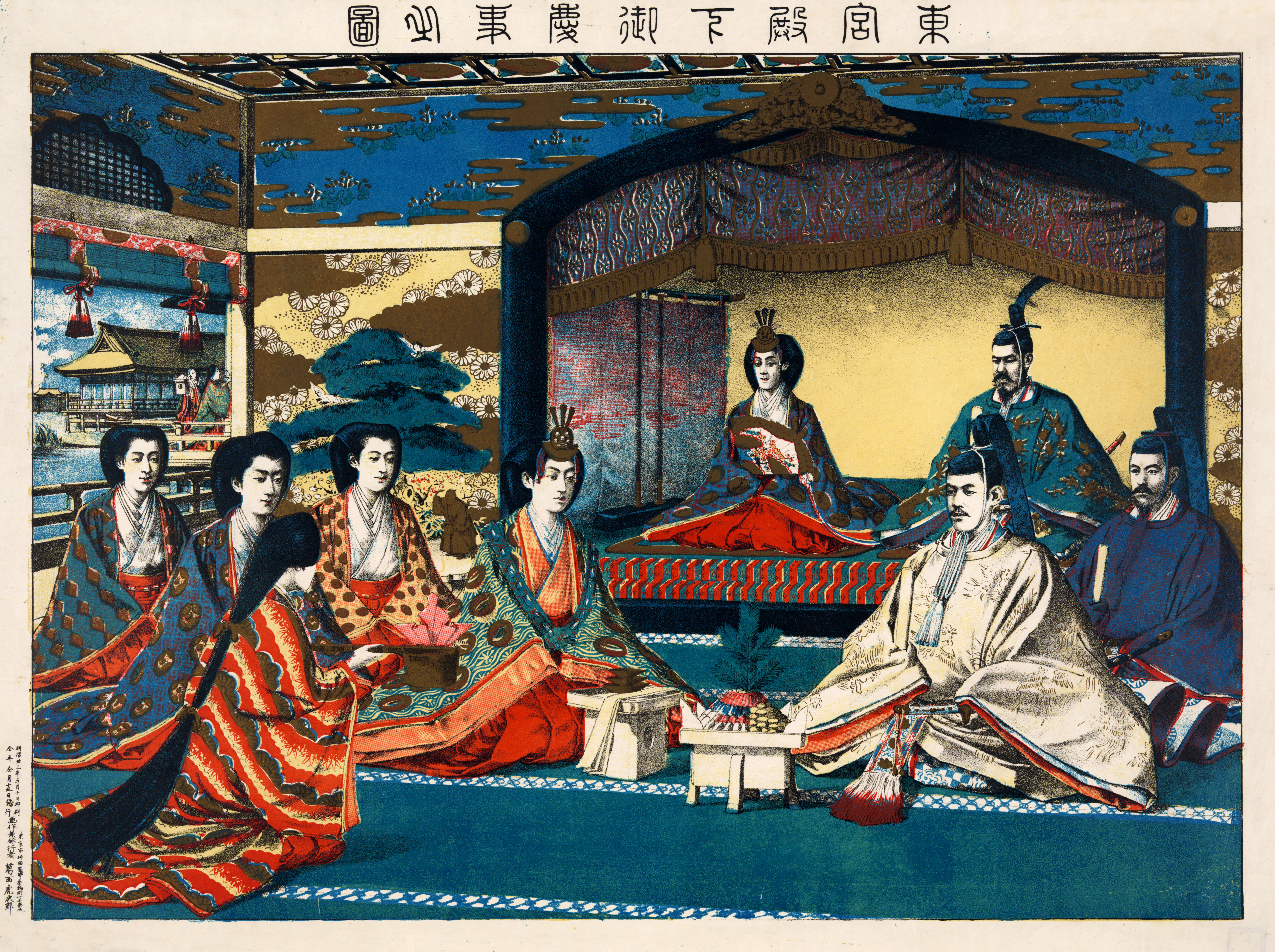 Wedding of Crown Prince Yoshihito and Princess Kujō Sadako. The Crown Prince and the Princess at their wedding reception; The Meiji Emperor of Japan, other members of the imperial family, and guests are present.